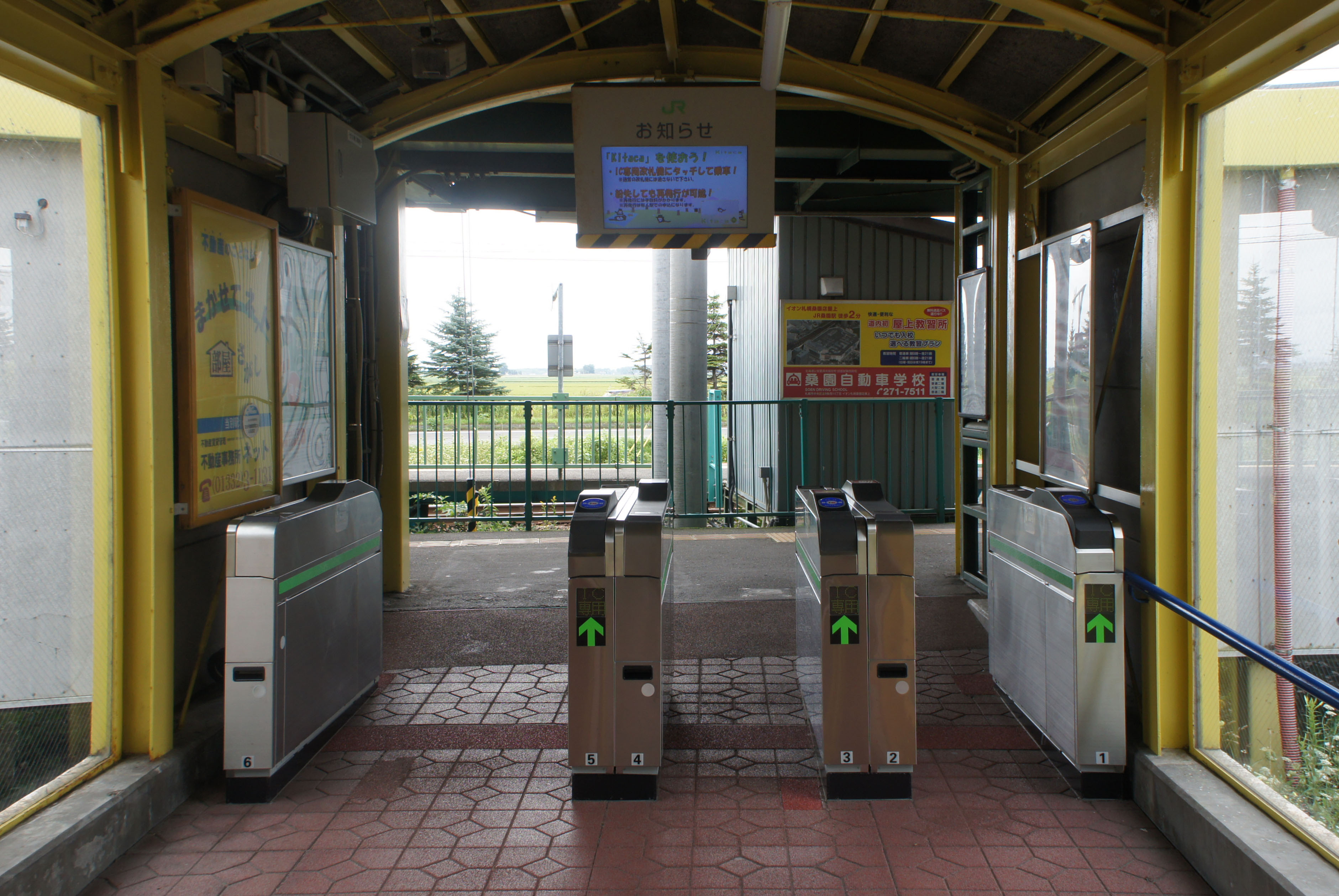 Gate of JR Sassho-Line Hokkaido-Iryodaigaku Station